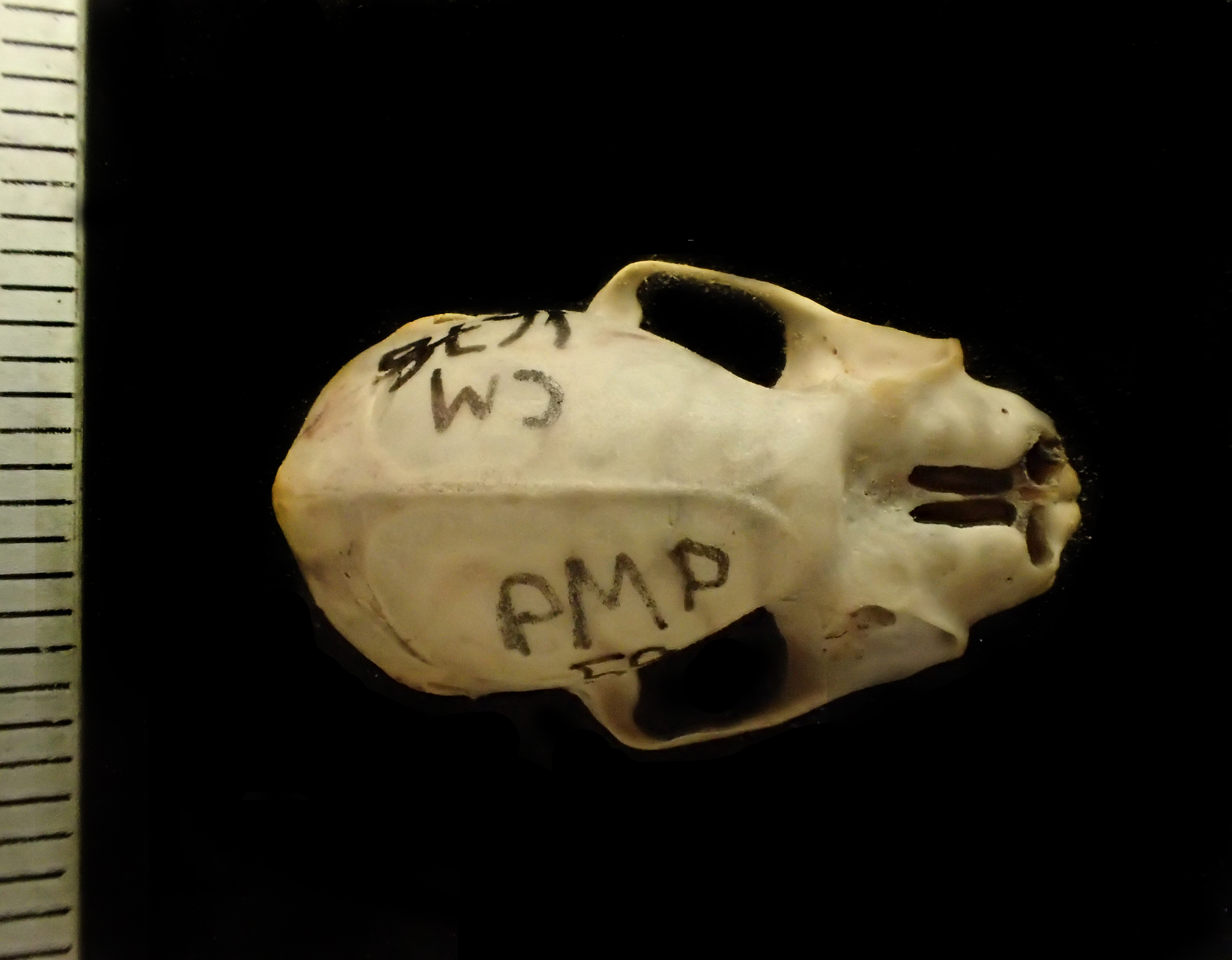 Skull of Chiroderma villosum from Brazil, in dorsal view.